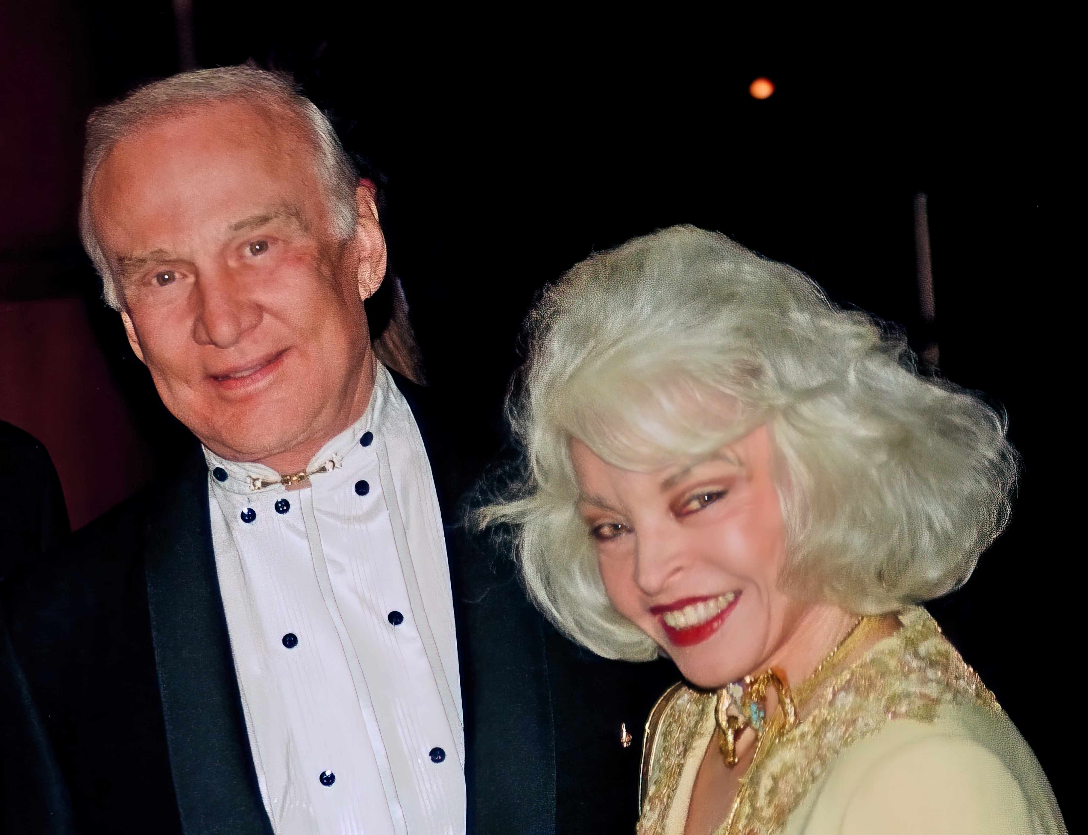 Buzz Aldrin and wife the late Lois Driggs 2 April 28, 2001 W.H.C.D